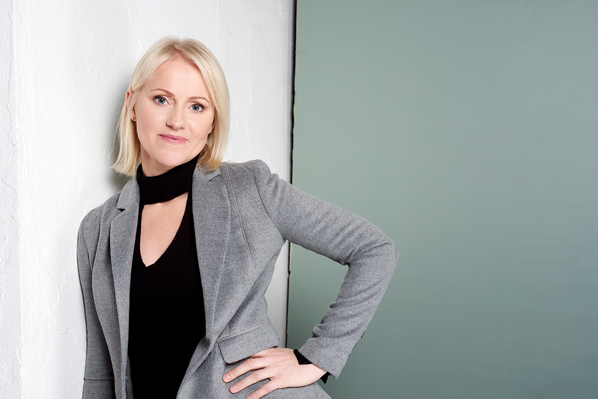 The Estonian journalist Hille Hanso on 18 January 2020 in Tallinn.